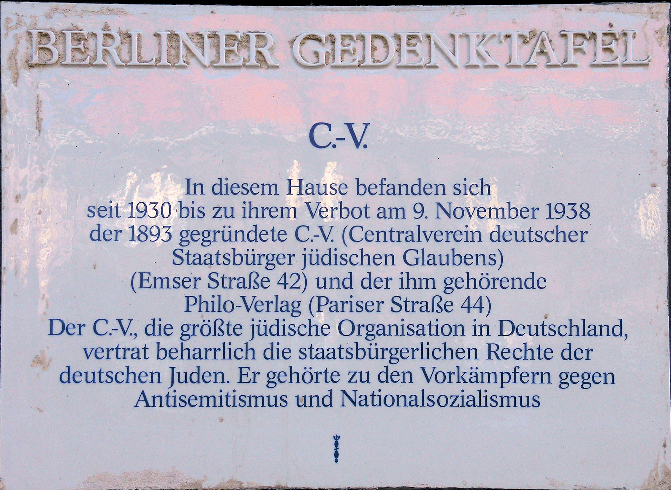 Berlin memorial plaque, Central-Verein deutscher Staatsbürger jüdischen Glaubens, Pariser Straße 44, Berlin-Wilmersdorf, Germany